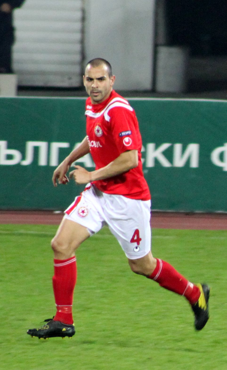 Kostadin Stoyanov (Bulgarian: Костадин Стоянов) (born on 26 May 1986) is a Bulgarian footballer, currently playing for CSKA Sofia[1]. Stoyanov is a central and left defender.